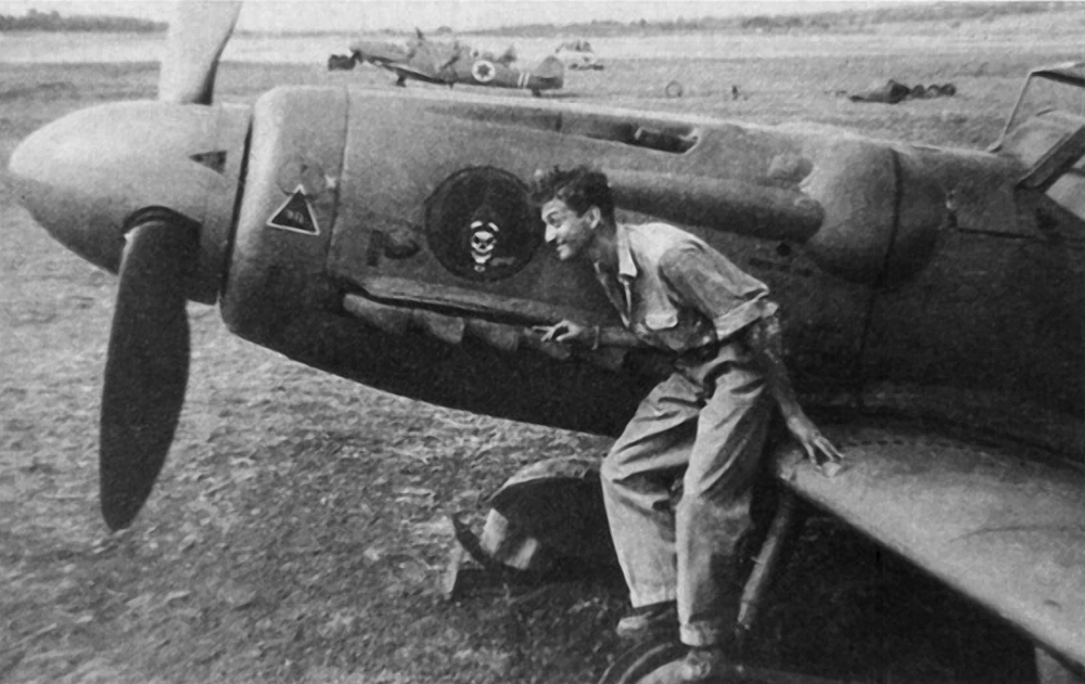 Ezer Weizman in 1948 with a Avia of the 101st Squadron.